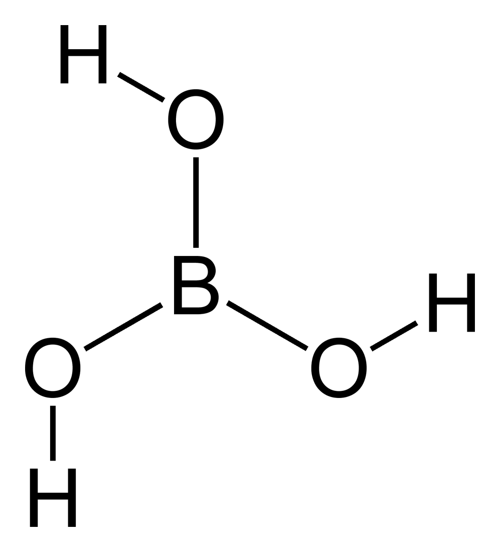 Structural formula of the boric acid molecule